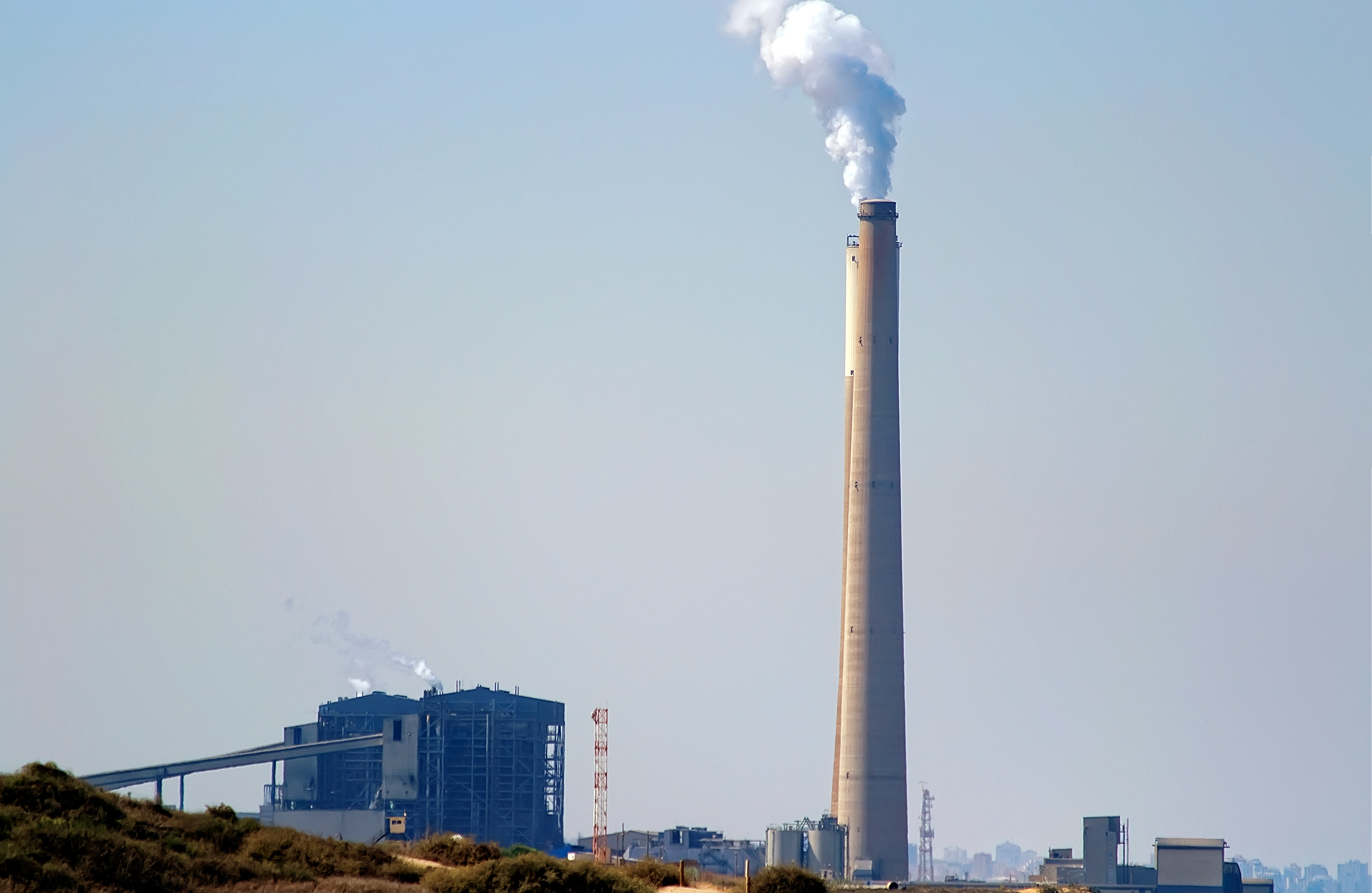 Rutenberg Power Station, Ashkelon